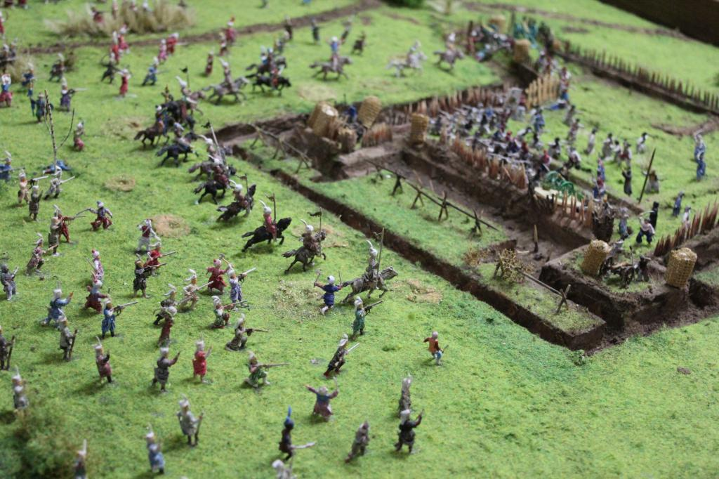 Diorama Bitke na Mišaru